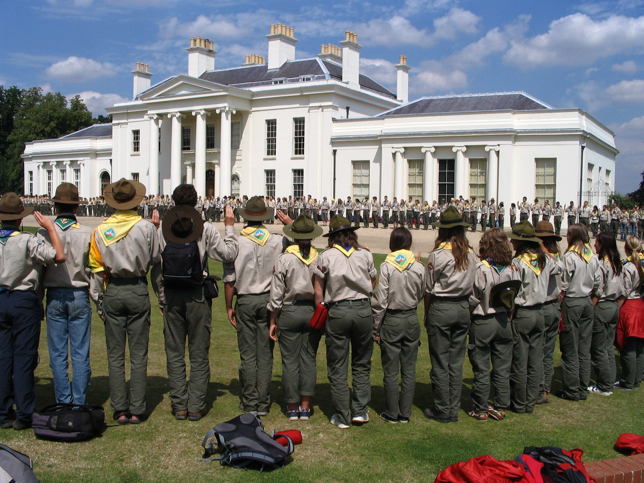 The Hungarian Scouts, in front of Hylands House, during the 2007 World Scout Jamboree.